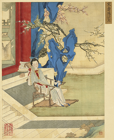 This painting depicts Princess Shouyang (壽陽公主) of Liu Song.